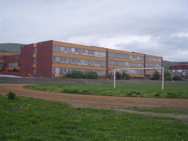 Elementary School, Tbilisi 4, Raca, Raca, Slovakia